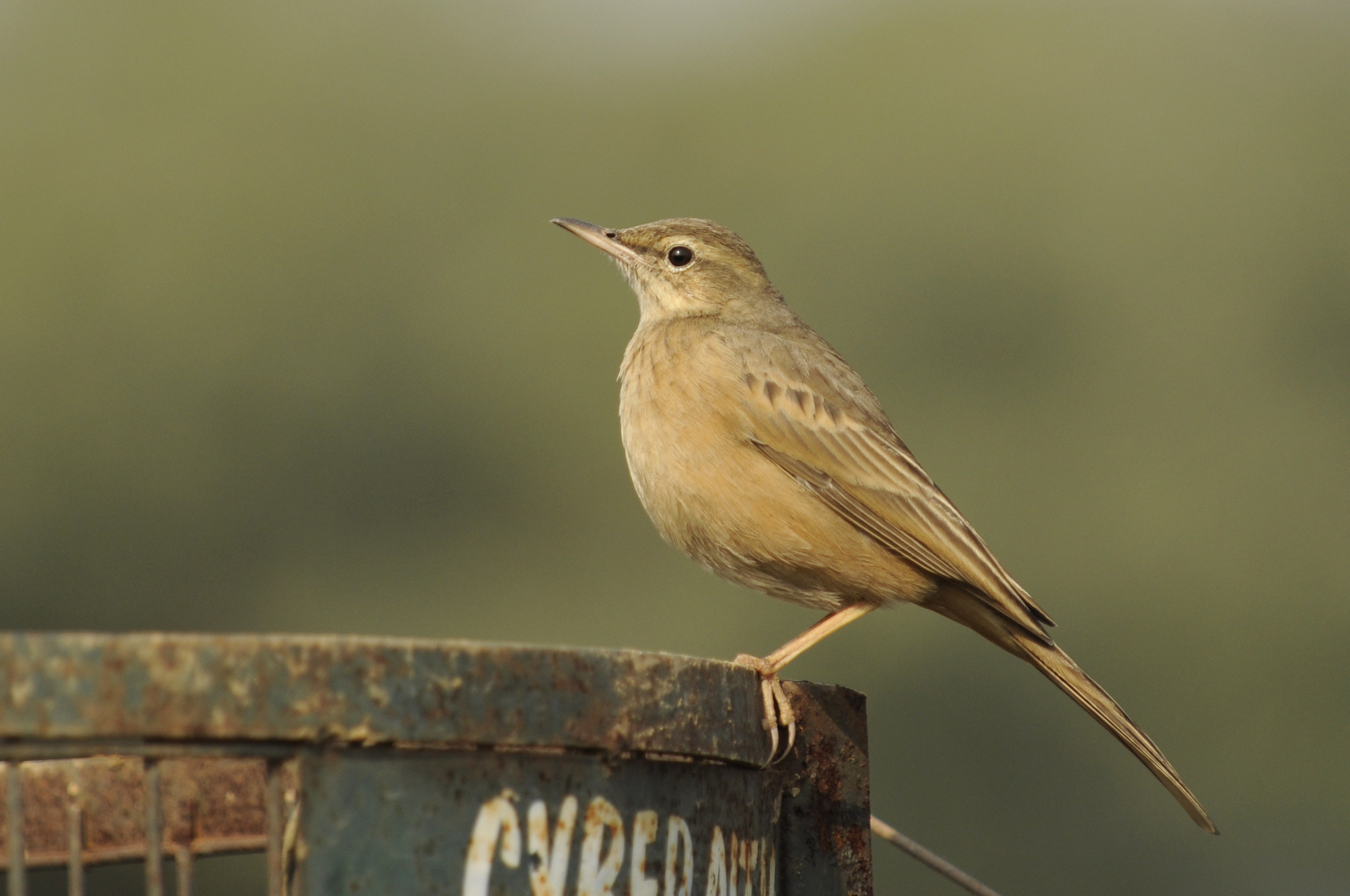 Long-billed pipit or brown rock pipit (Anthus similis) in the Aravalli Biodiversity Park Gurgaon, Haryana, India